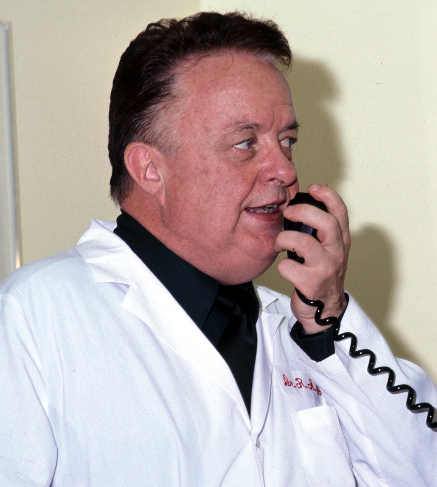 Dr. R Adams Cowley, founder of the Maryland Institute for Emergency Medical Services Systems and Shock Trauma Center, demonstrates a portable satellite earth station (1977).